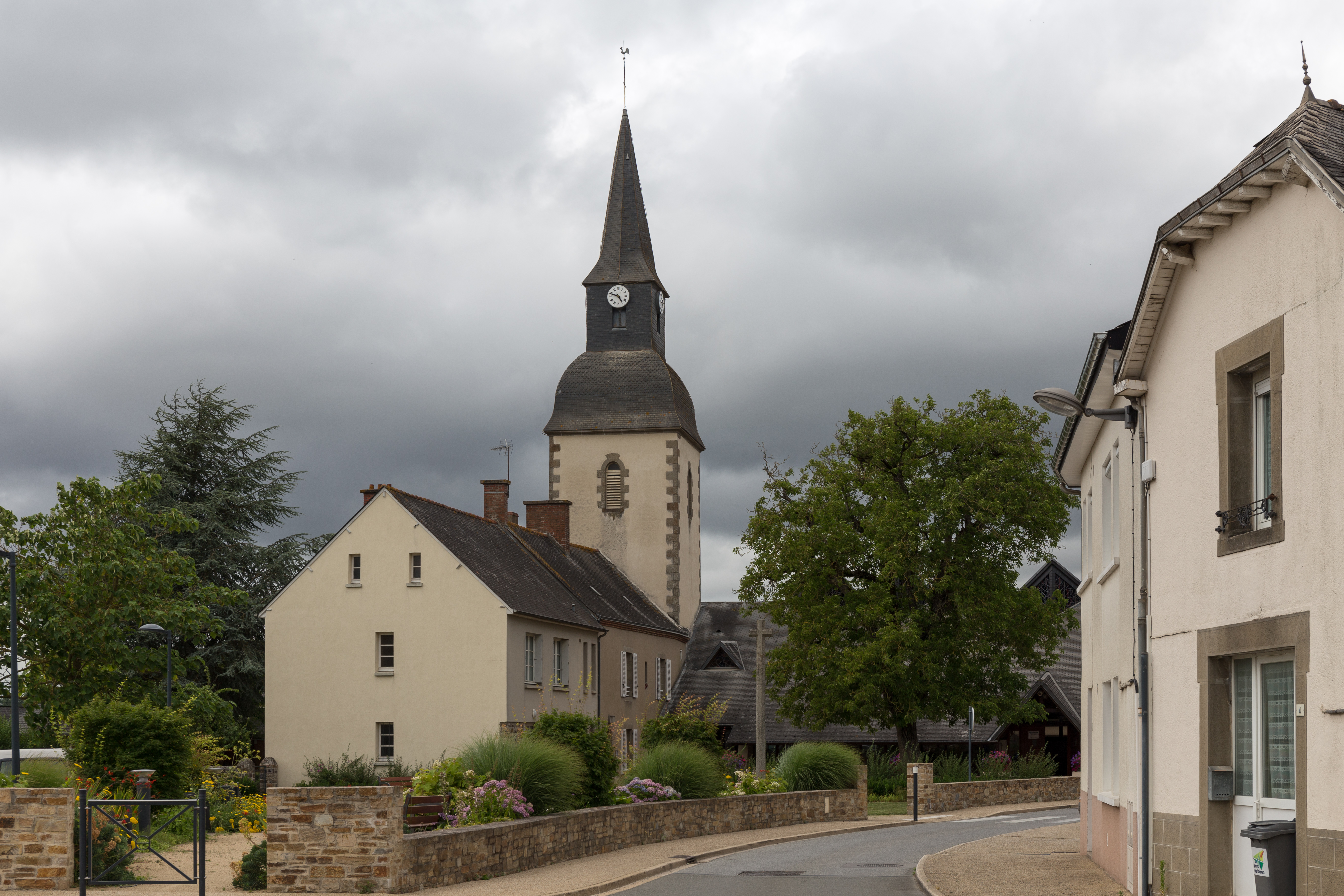 Church of Saint-Pierre-la-Cour.